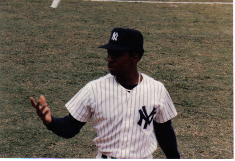 Willie Randolph 1983, New York Yankees Spring Training 04:33, 8 May 2008 . . Phil5329 . . 765×525 (172 KB)